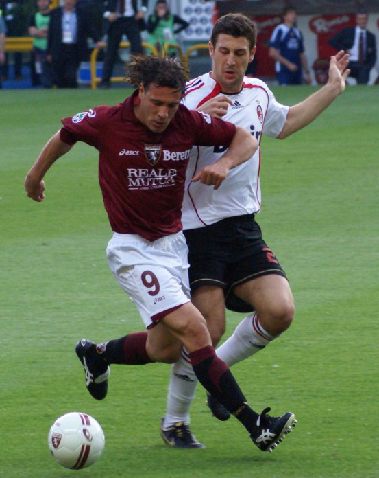 Soccer Torino's FC player Roberto Muzzi is controlled by Milan's Daniele Bonera.